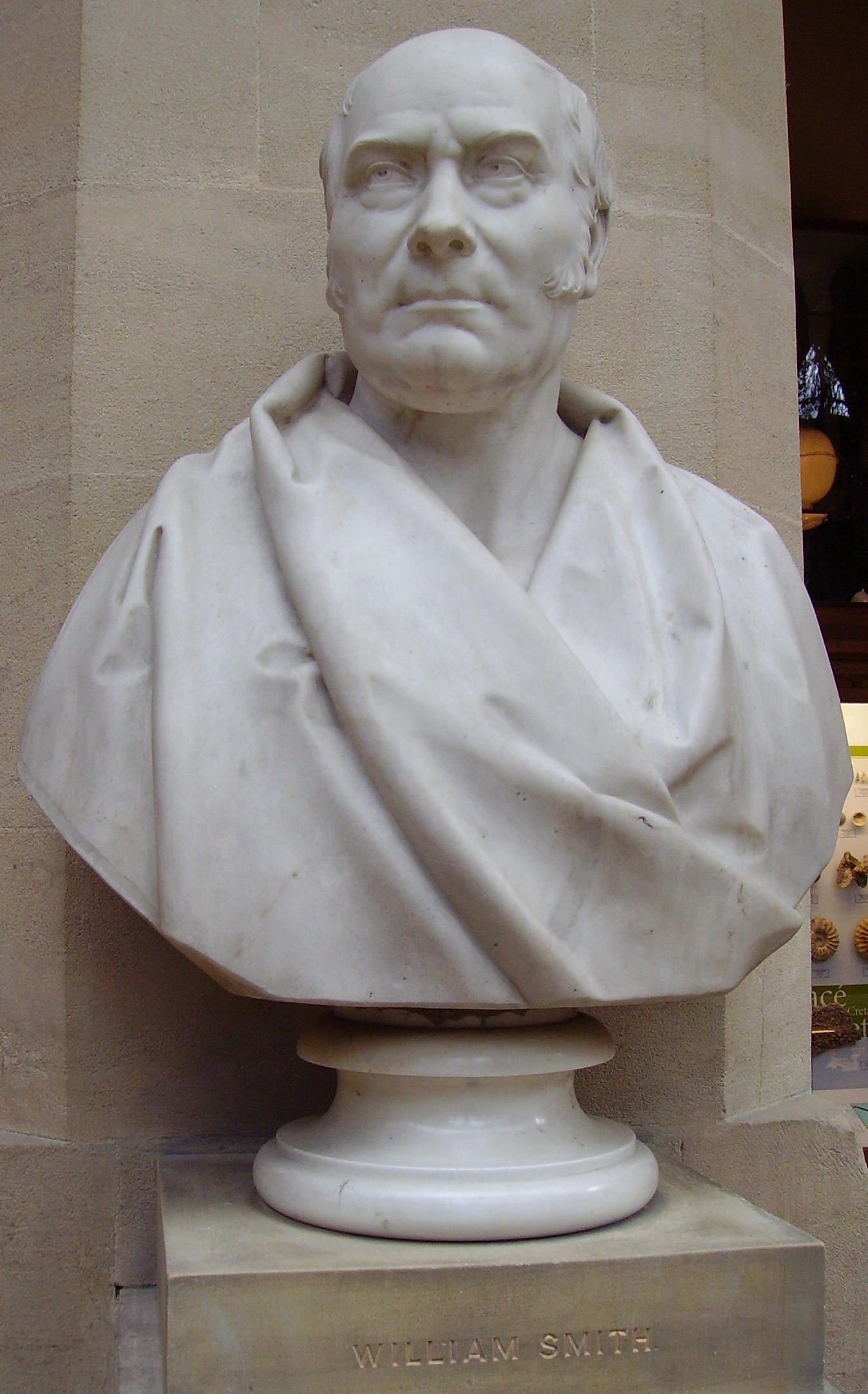 A bust of William "Strata" Smith (23 March 1769 – 28 August 1839), an English geologist.